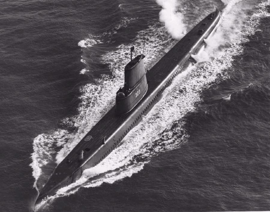 USS_Caiman; Caiman (SS-323), port view underway, Spring 1951 following upgrading to GUPPY and overhaul at Mare Island. US Navy photo courtesy of George M. Arnold.